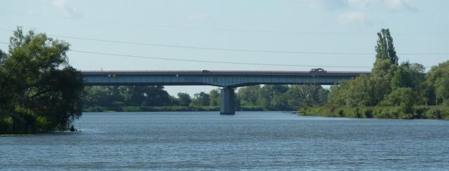 Polish A6 Freeway, bridge over the West Oder river as seen from Siadło Dolne